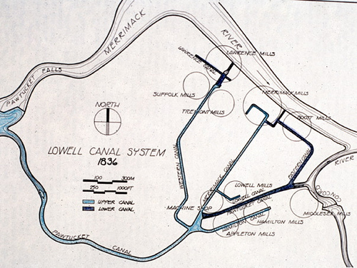 The power canal system of Lowell, Massachusetts as it appeared in 1836